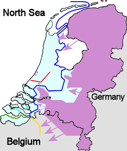 Military situation in the Netherlands during the final days of the German invasion (May 10th 1940).